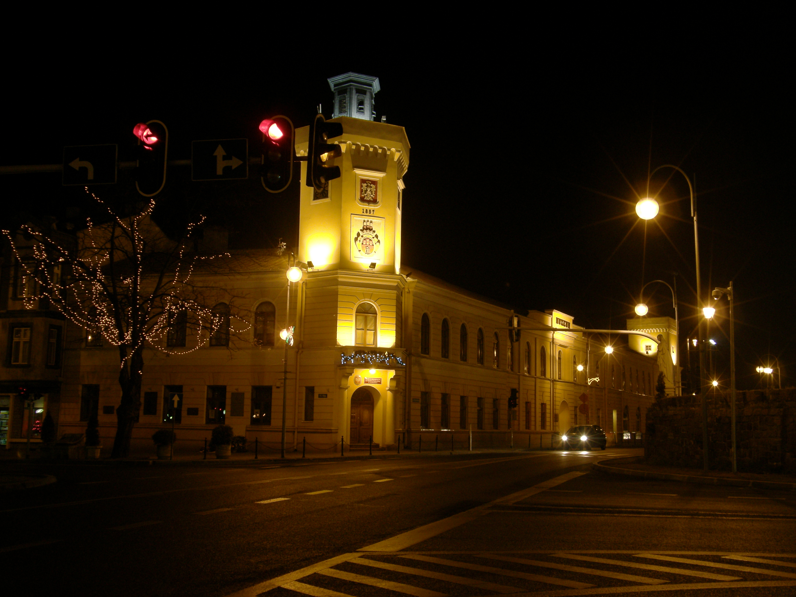 City hall